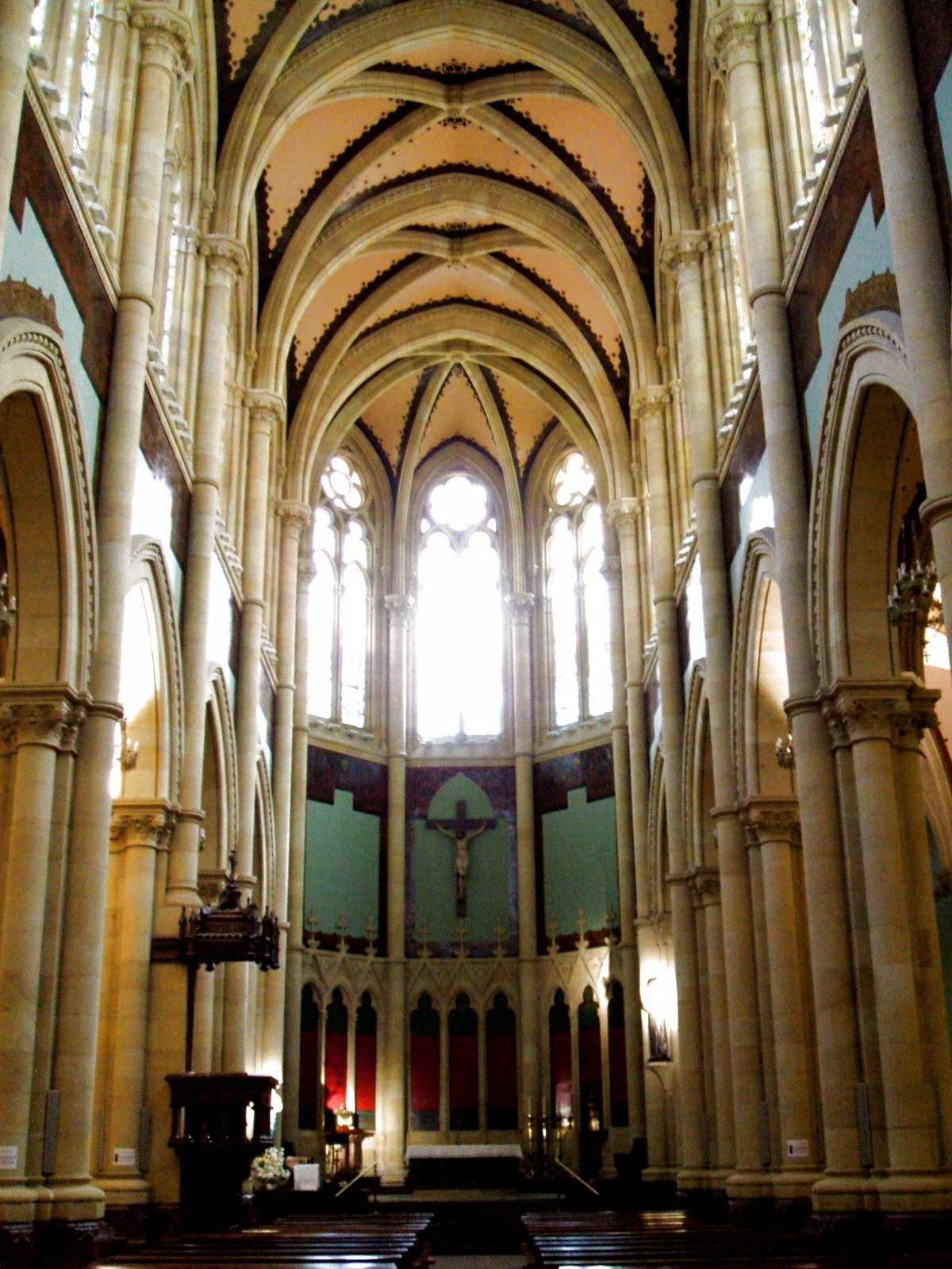 Iglesia de San Francisco de Asís, Bilbao (España)